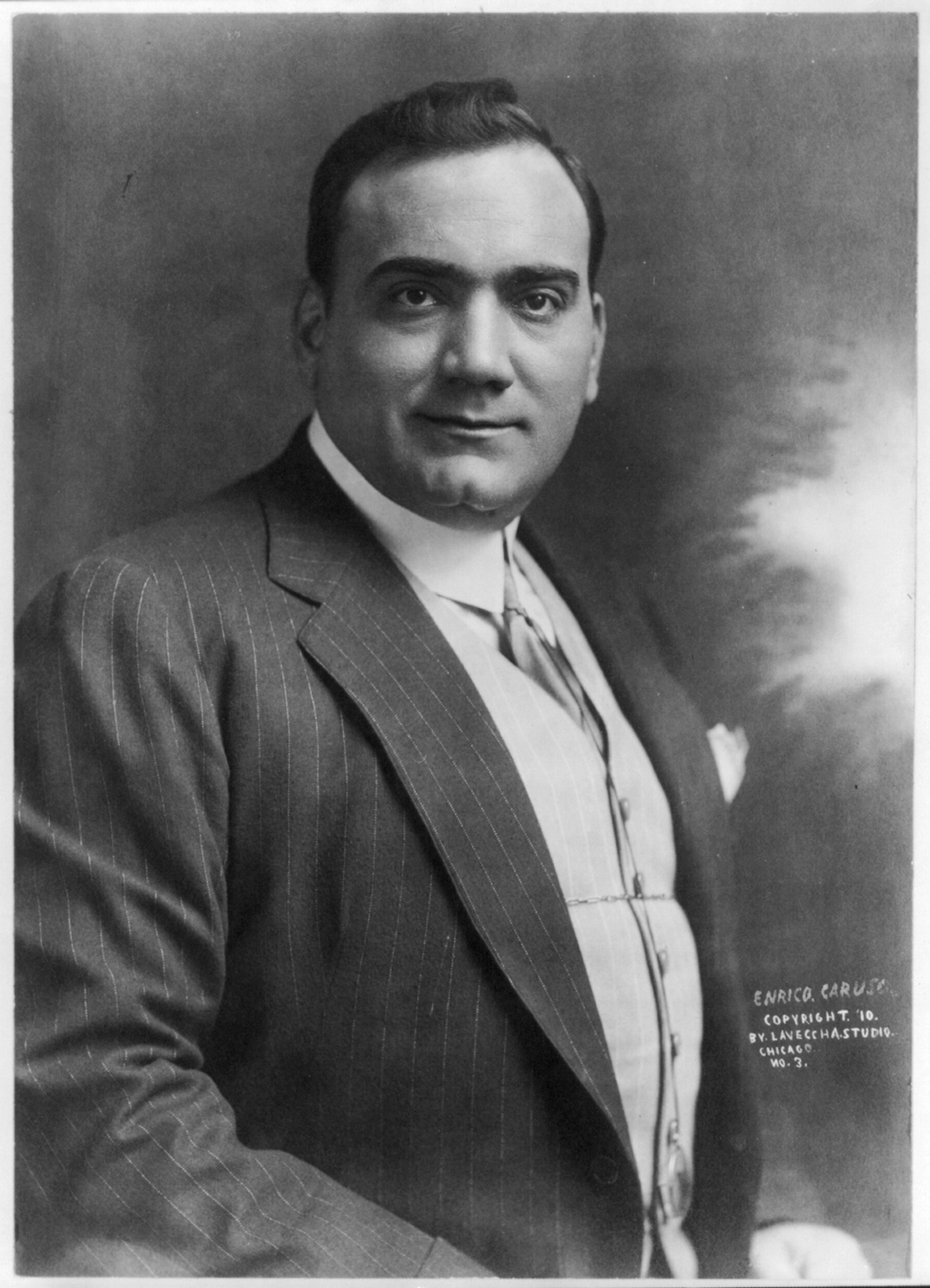 Enrico Caruso, 1873-1921, half-length portrait, facing right